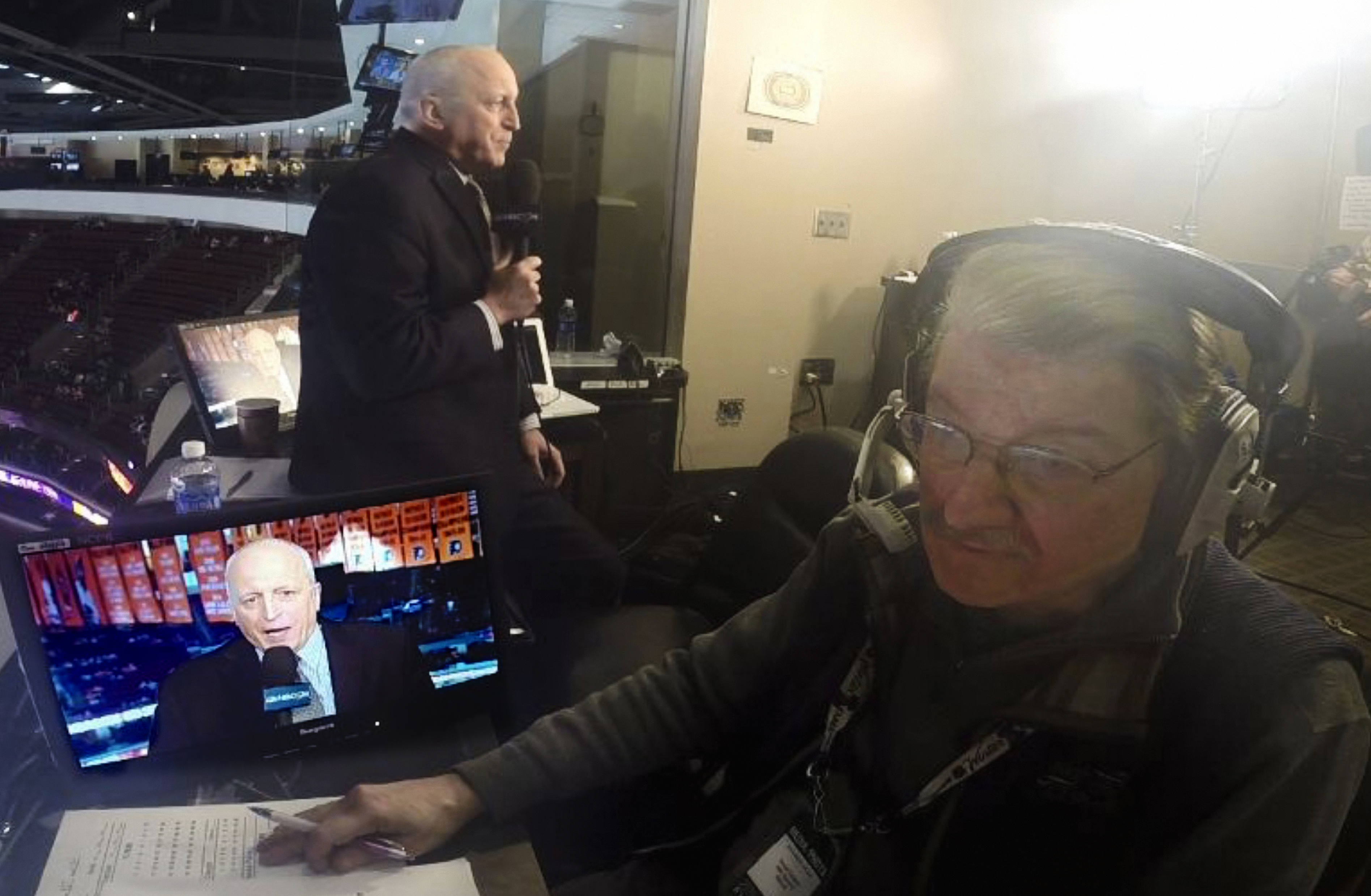 Dave Strader broadcasting NHL on NBC (Pittsburgh Penguins at Philadelphia Flyers at Wells Fargo Center, Philadelphia, PA)